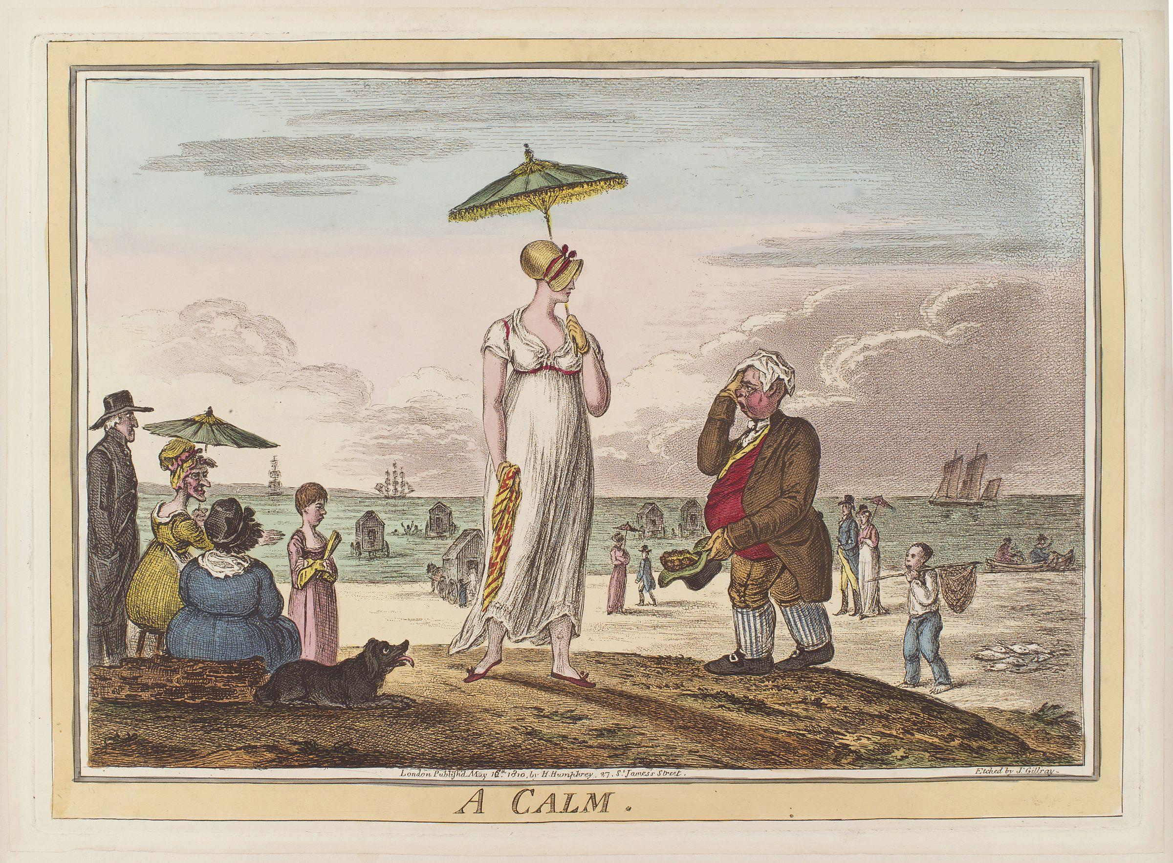 A calm, by James Gillray (died 1815), published 1810. Seaside scene with bathing machines in the water and fashionably-dressed women on shore. All images in this batch have been confirmed as author died before 1939 according to the official death date listed by the NPG.